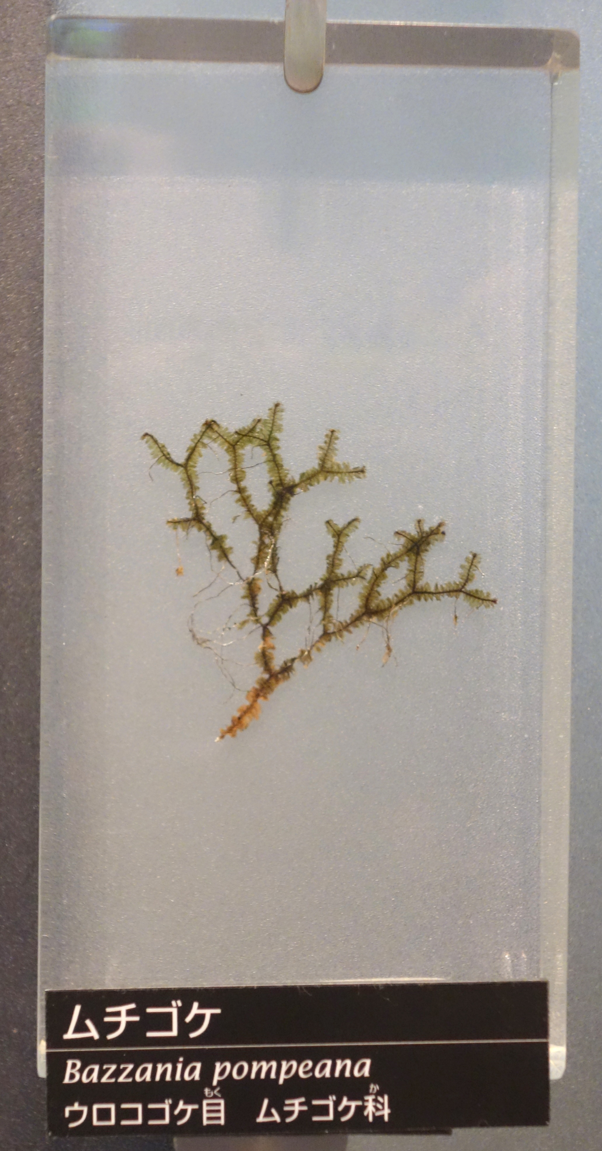 Exhibit in the National Museum of Nature and Science, Tokyo, Japan.